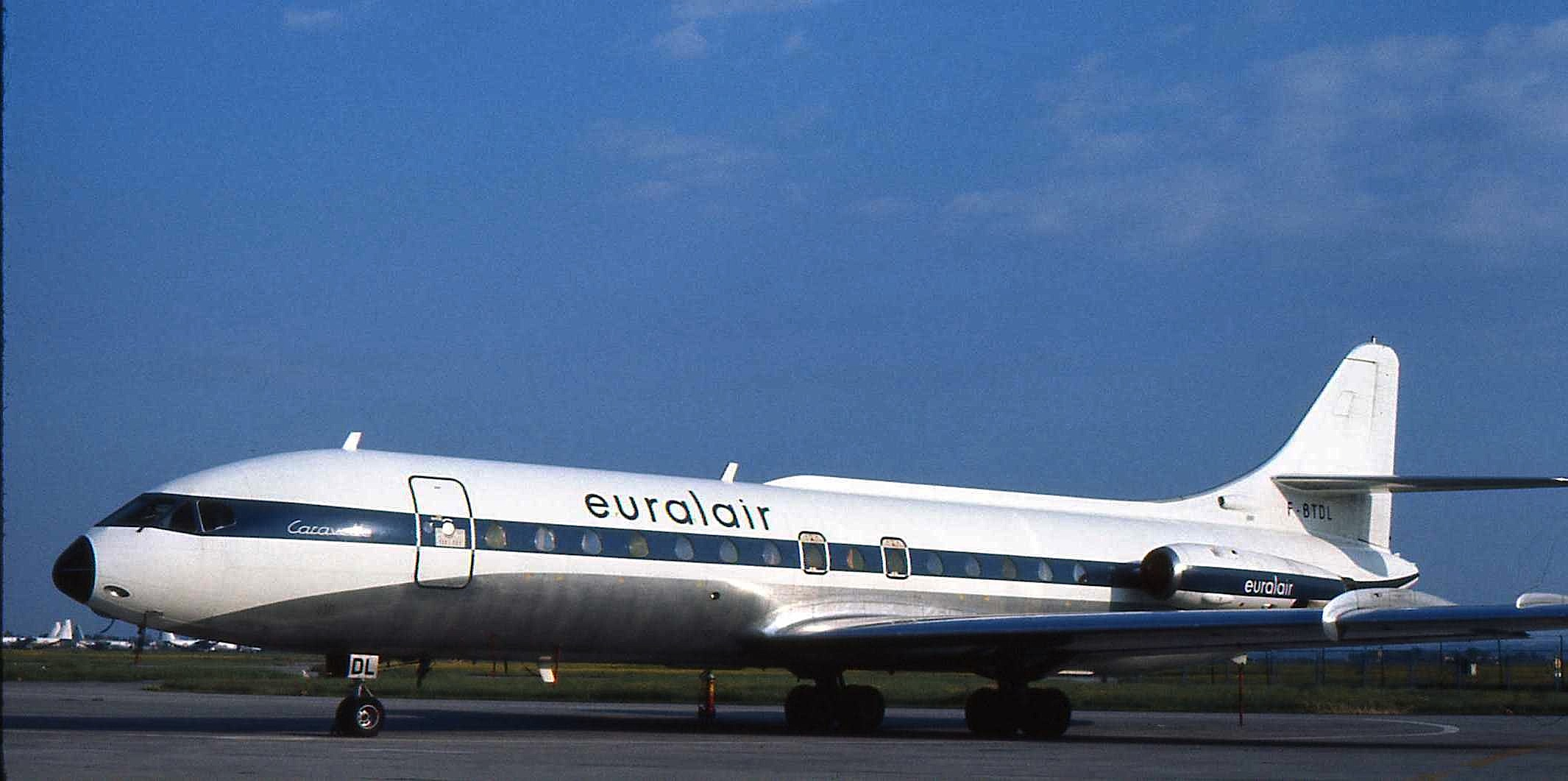 Euralair Sud Aviation Caravelle VI-R F-BTDL c/n 136 was the Sud-Lear Autoland prototype as F-BLKI, sold to Austrian Air Transport as OE-LCU and in June 1973 to Euralair.